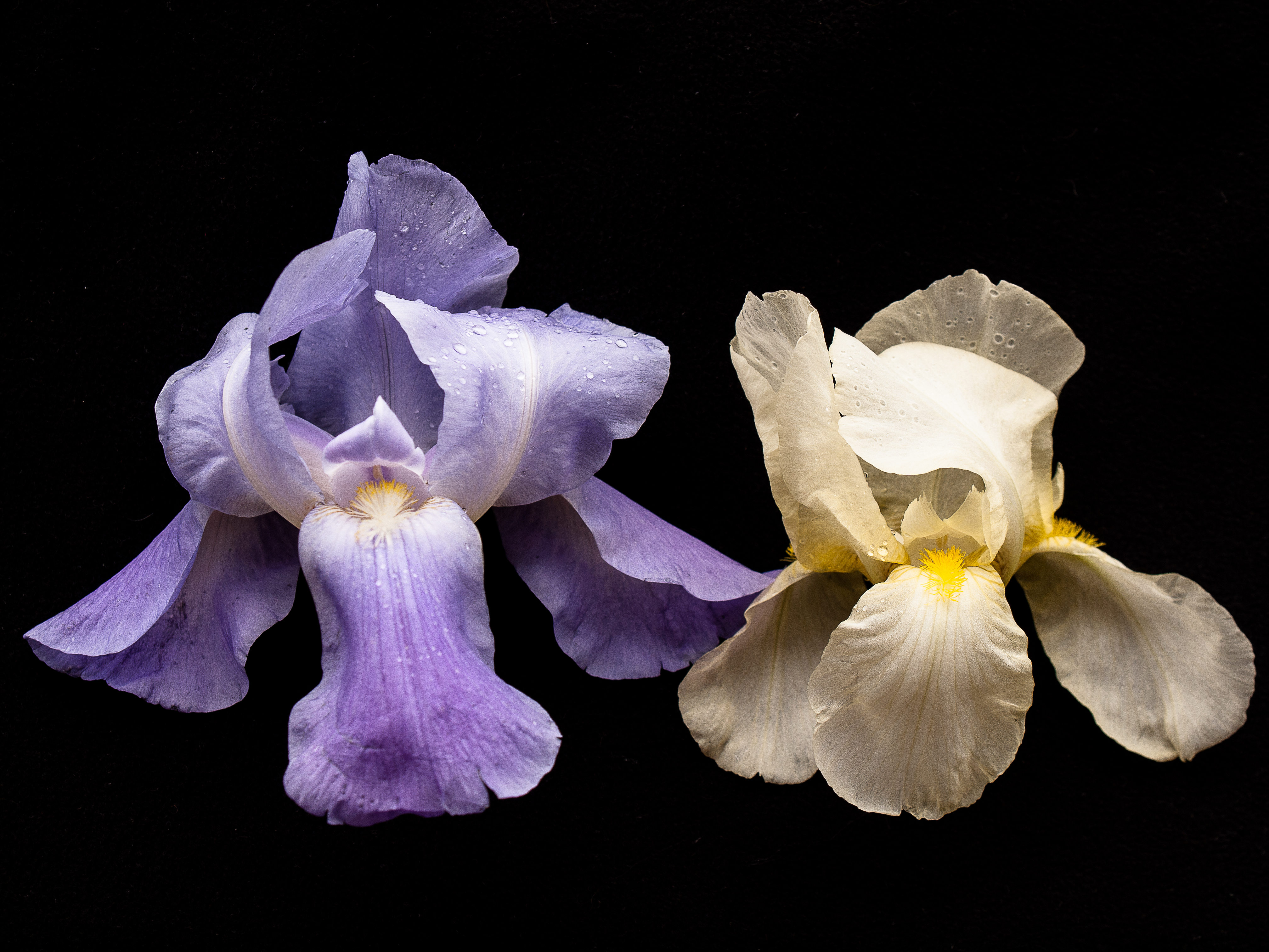 Iris orjenii Bräuchler & Cikovac Iris pseudopallida Trinajstic coll. Cikovac. Iris orjenii sampled from wild population at Bijela gora below Reovacka grda col. Iris pseudopallida sampled from Katunska nahija North of Vilusi.